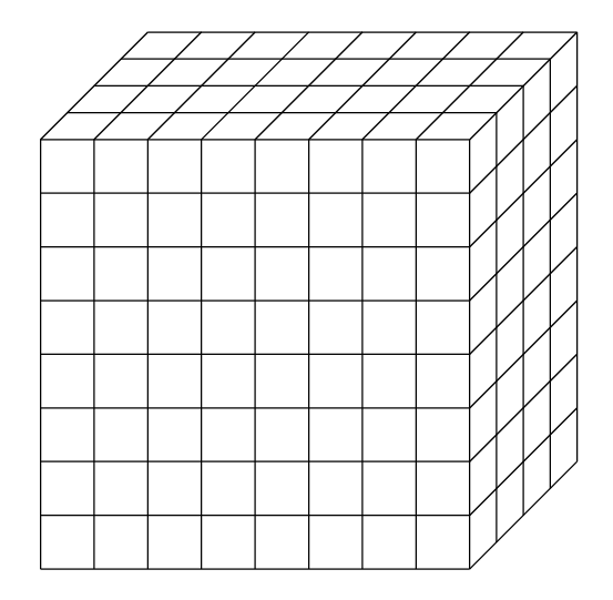 3-d-lattice